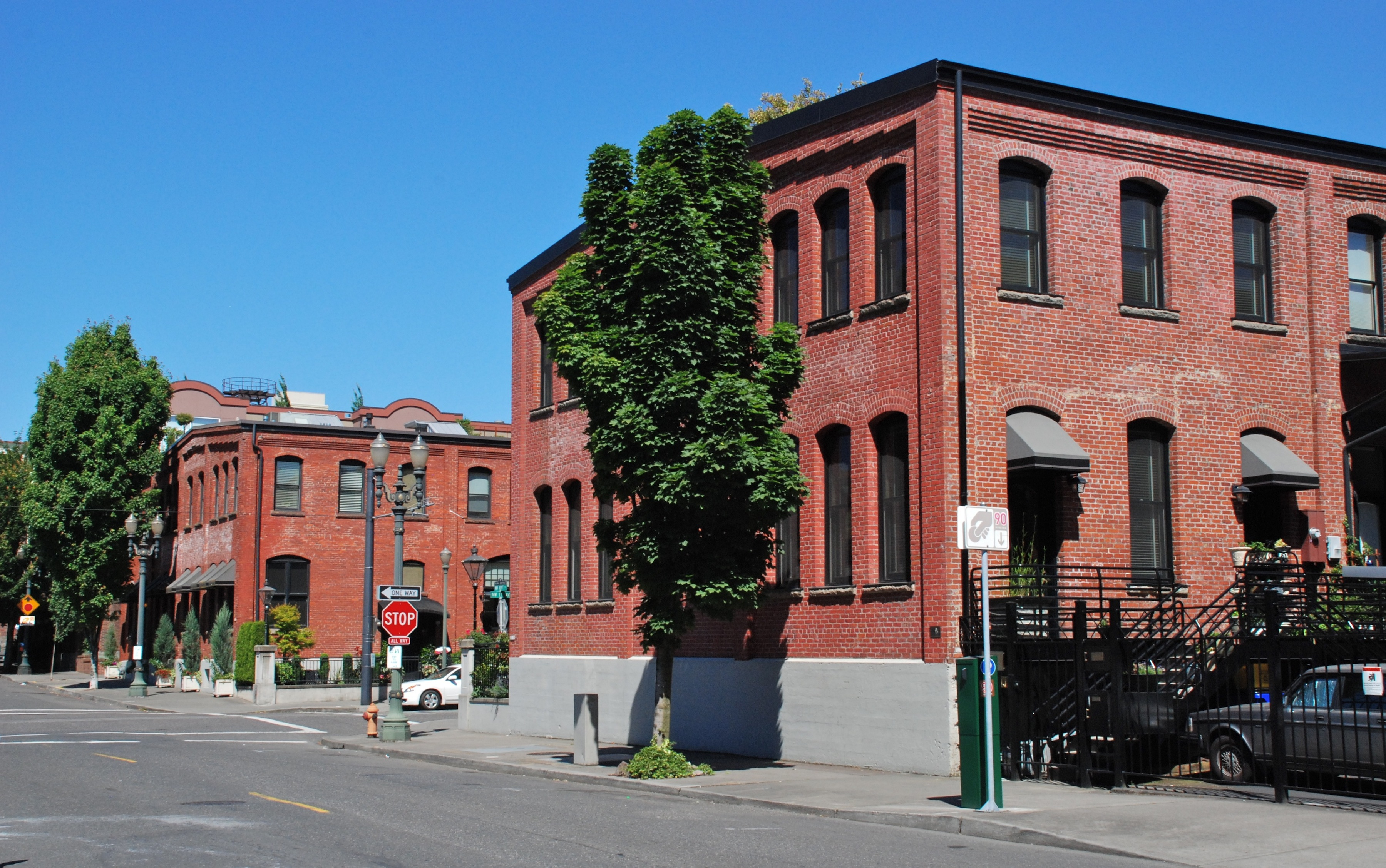 The North Bank Depot Buildings, located at NW 11th Avenue and Hoyt Street in Portland, Oregon, United States, are a matching pair of buildings listed on the US National Register of Historic Places (NRHP). This view from the southeast, on Hoyt Street, shows the south ends of both buildings and a portion of their east facades. The buildings were also known as the East and West Freight Houses of the Spokane, Portland and Seattle Railway. The nearest building was also used as a passenger terminal from 1908–1931, by SP&S and later by the Oregon Electric Railway. In the mid- to late 1990s the buildings were refitted for use as residential dwellings.